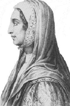 Béatrice-de-Tende-15th century